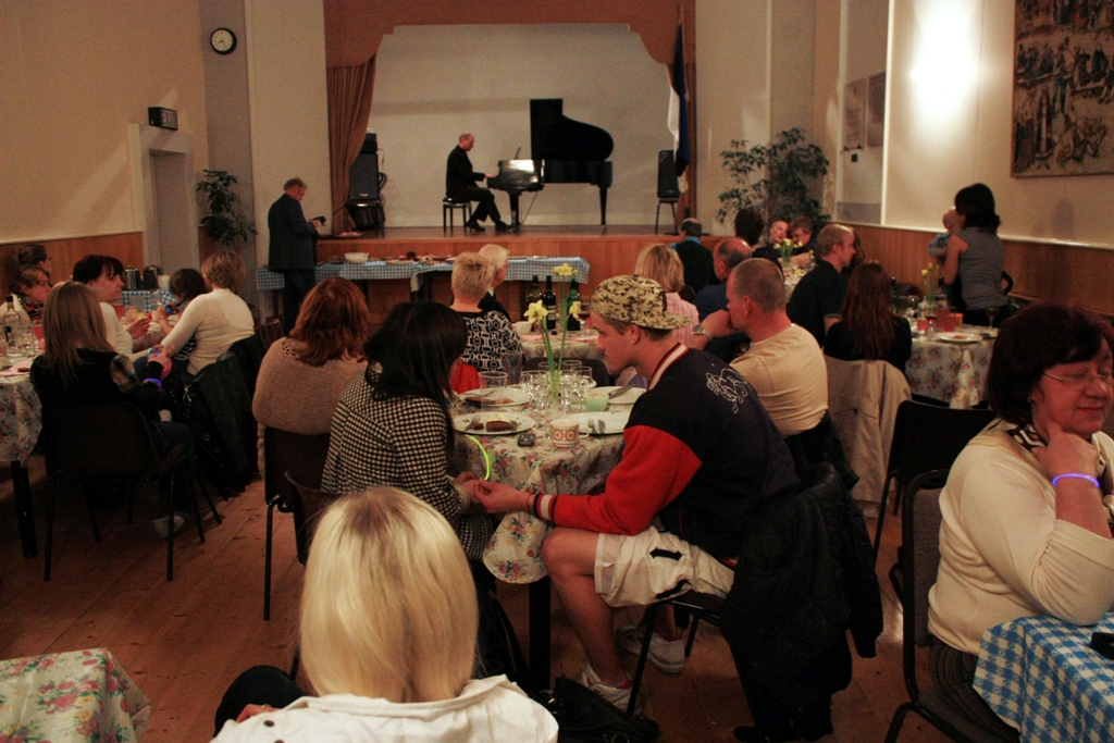 Party with Mart Sander from Estonia in London Estonian House. A lot of information is available of the highly respected singer, artist, and prominent Estonian showman, TV host, movie star, book writer at